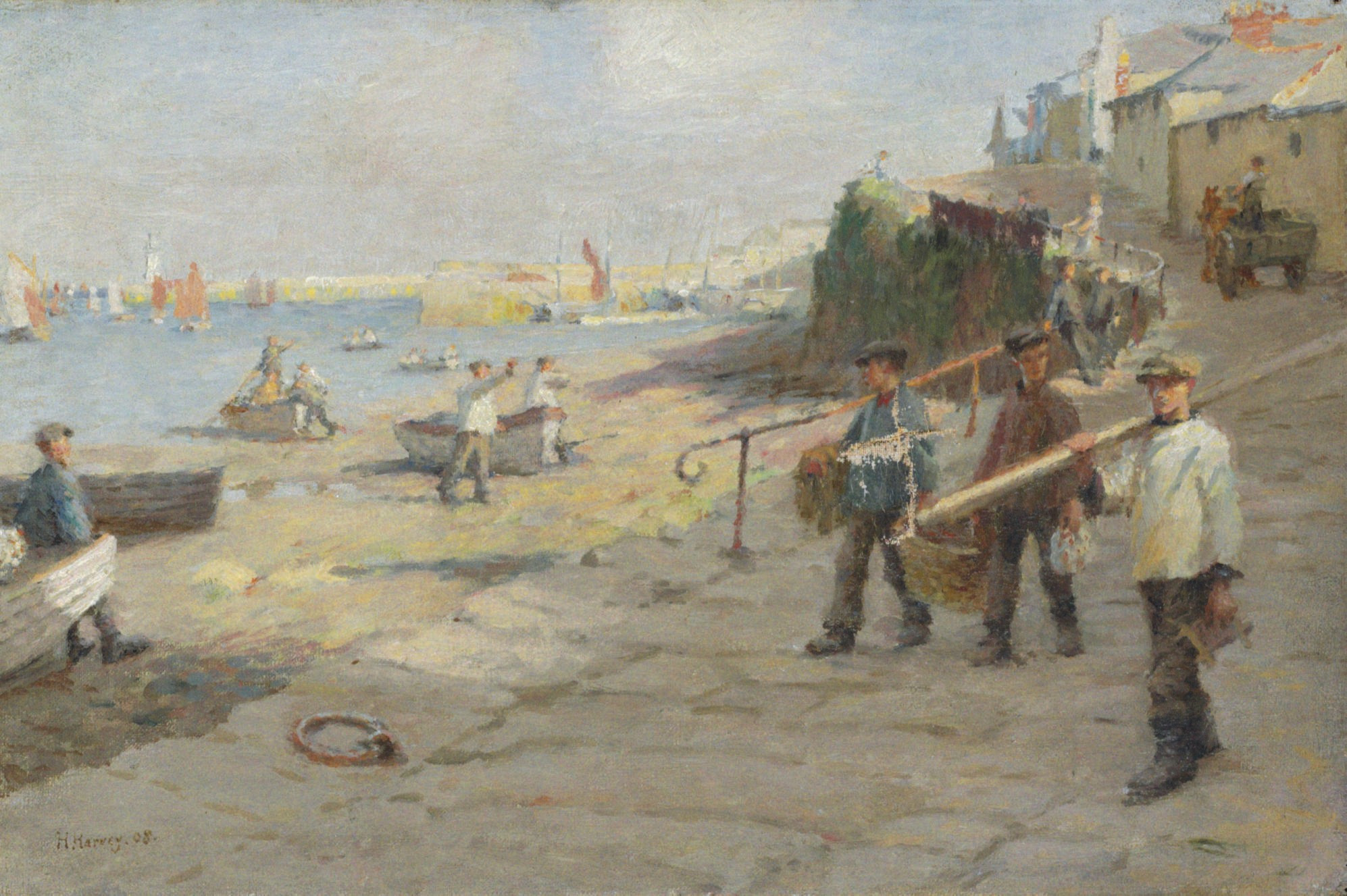 The Old Slip, Newlyn. Signed H Harvey/08. Oil on canvas, 30.4 x 45.7 cm